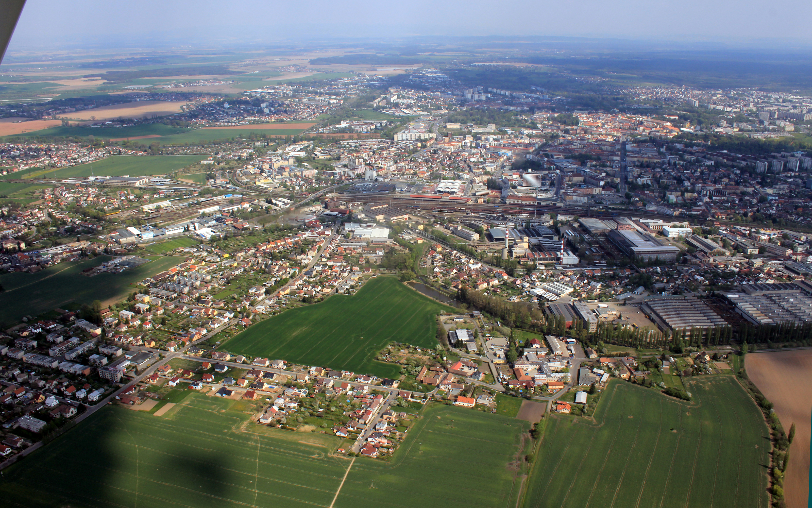 Town Hradec Králové from air, eastern Bohemia, Czech Republic